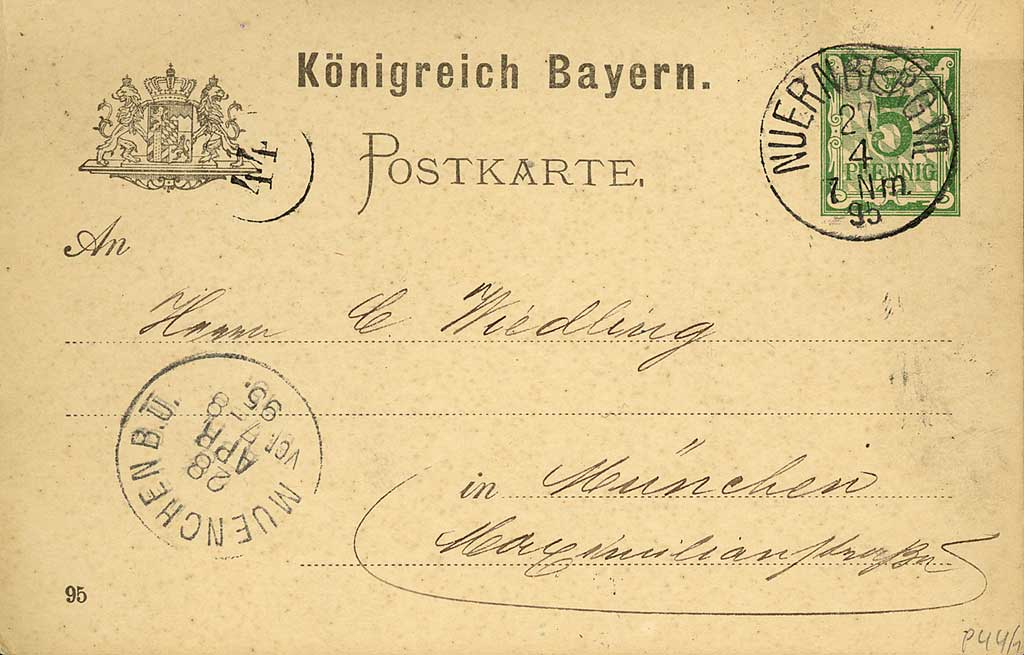 Postal card of Bavaria, cancelled at Nuremberg.